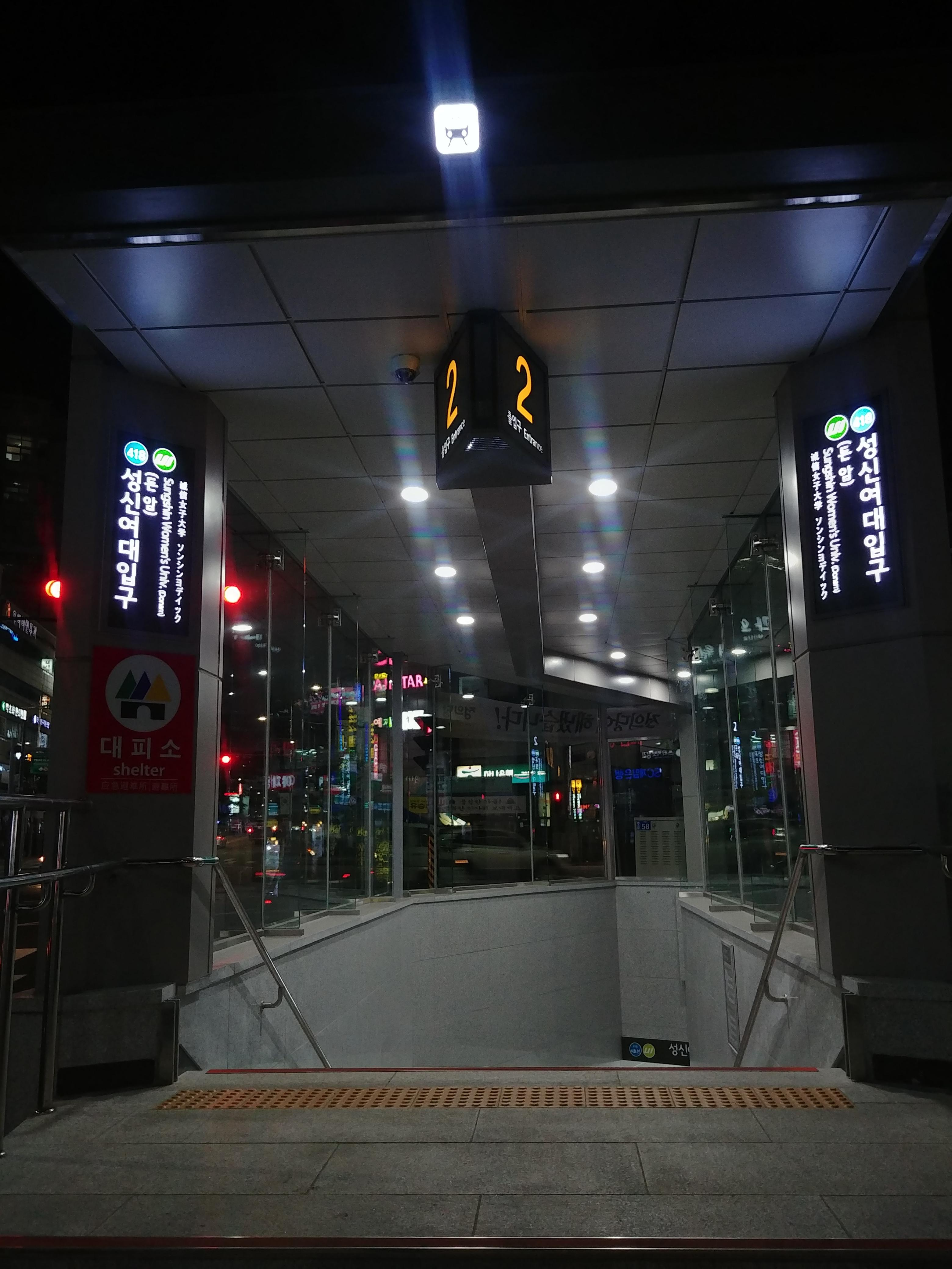 Seoul Subway Line 4, Ui LRT Sungshin Women's University Station Exit 2